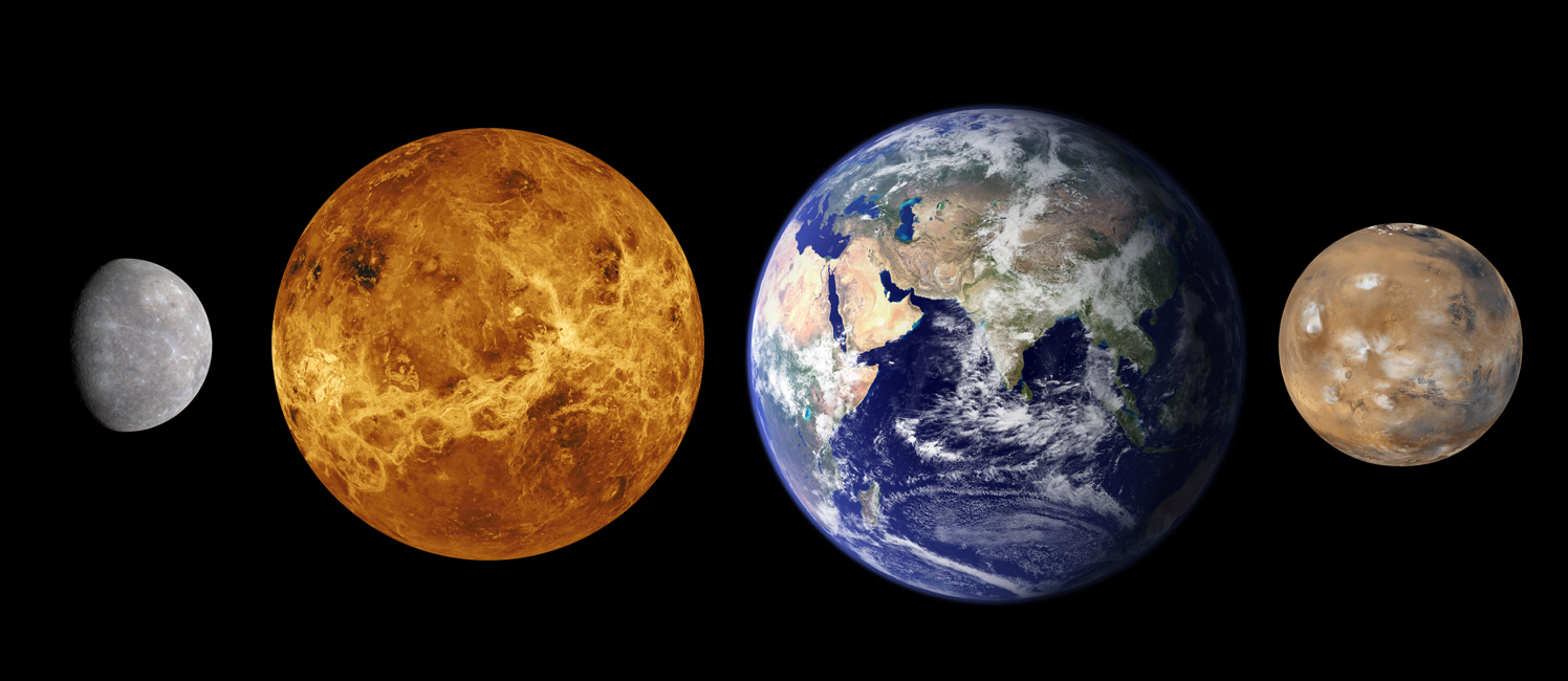 Terrestrial Planets comparison Size comparison of the four terrestrial planets Mercury, Venus, Earth and Mars.